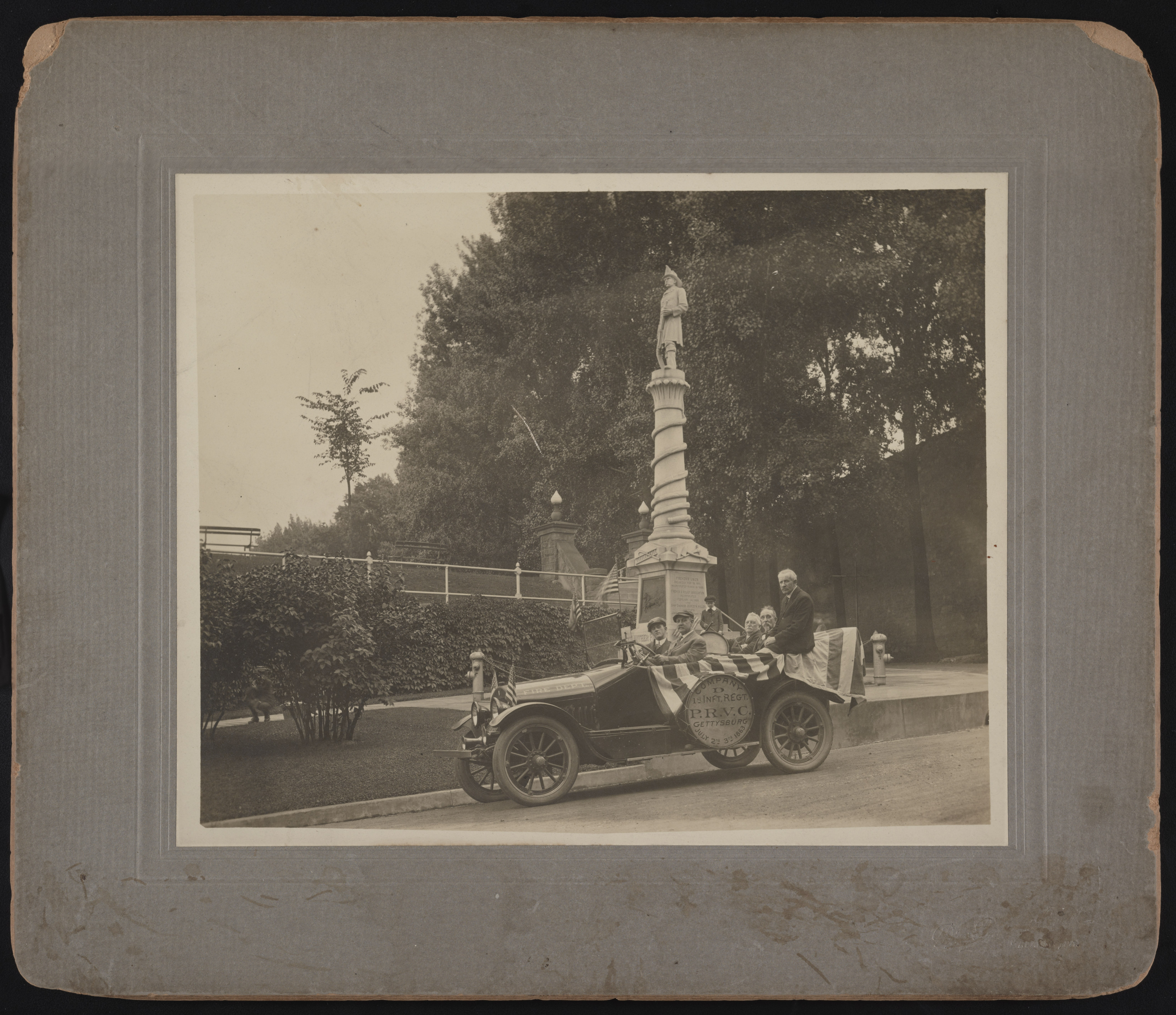 Title: Civil war veterans of Co. D, 30th Pennsylvania Infantry Regiment, 1st Pennsylvania Reserve Corps] / Dives, Pomeroy & Stewart, Reading, Pa Abstract/medium: 1 photograph : gelatin silver print ; sheet 21 x 26 cm, mount 30 x 35 cm.